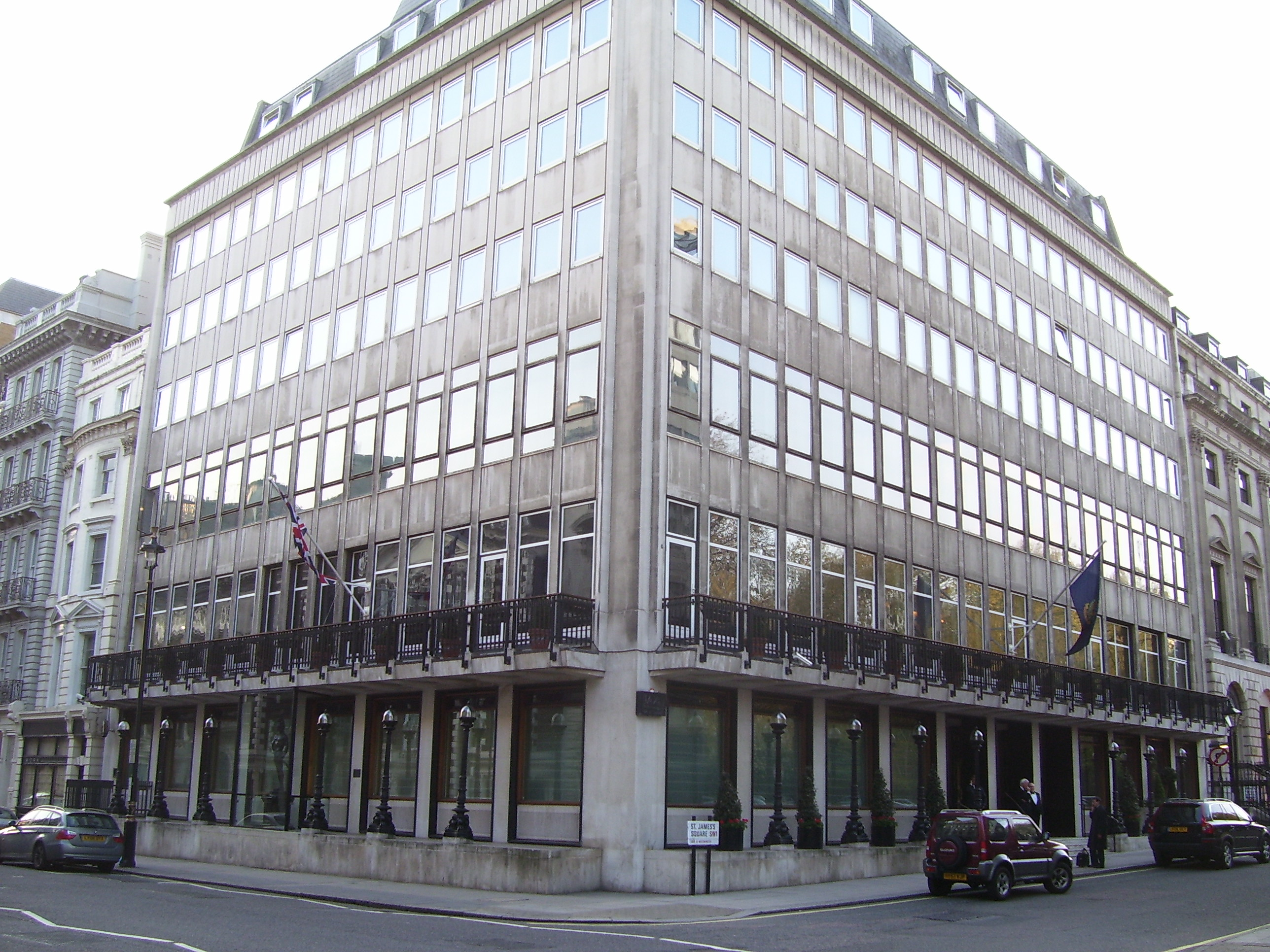 Army and Navy Club - building from the 1950s, Westminster - London